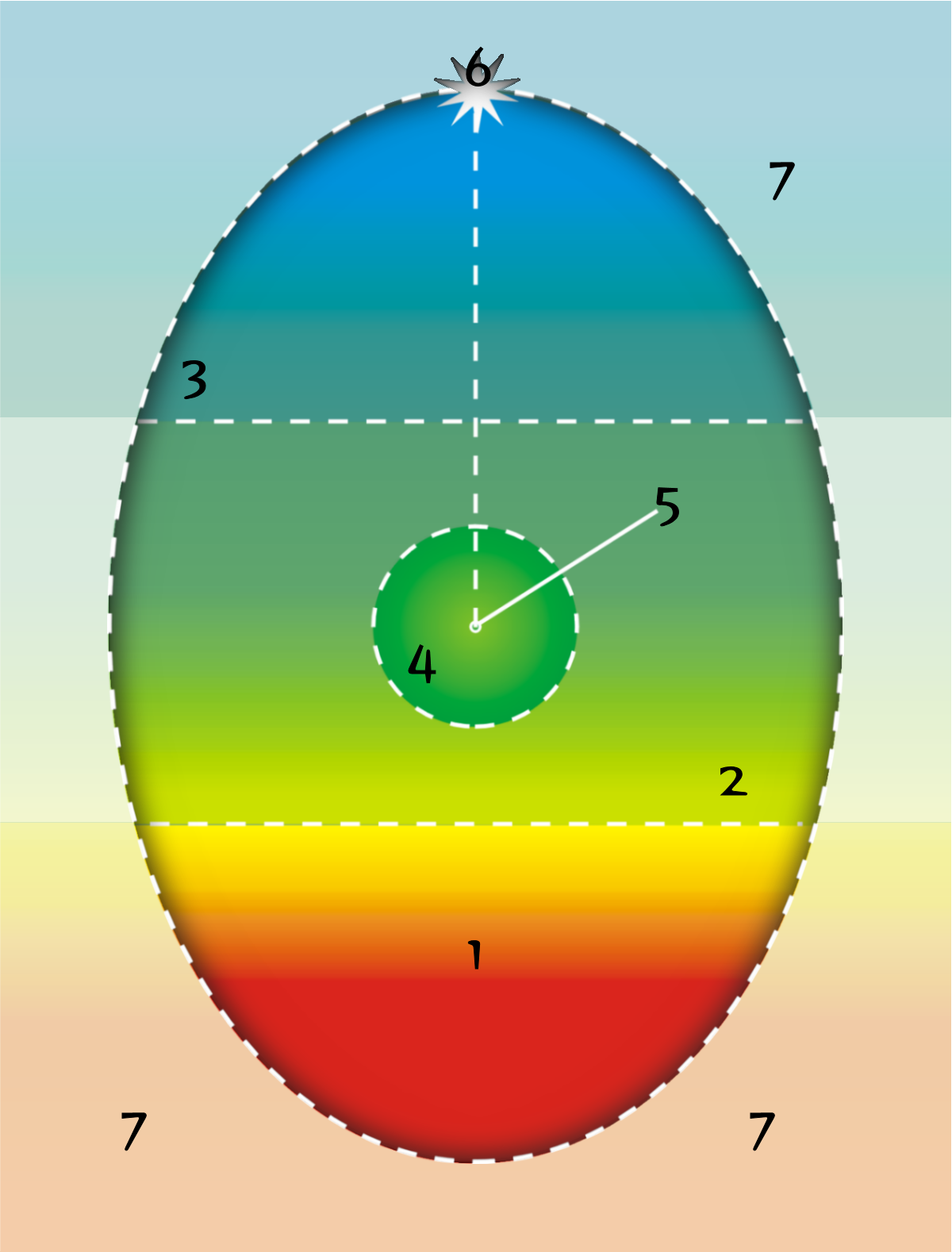 Psychosynthesis Egg Diagram, formulated by Roberto Assagioli. It depicts various aspects of consciousness as described in Psychosynthesis. Based on Image:Psychosynthesis-egg-diagram.png